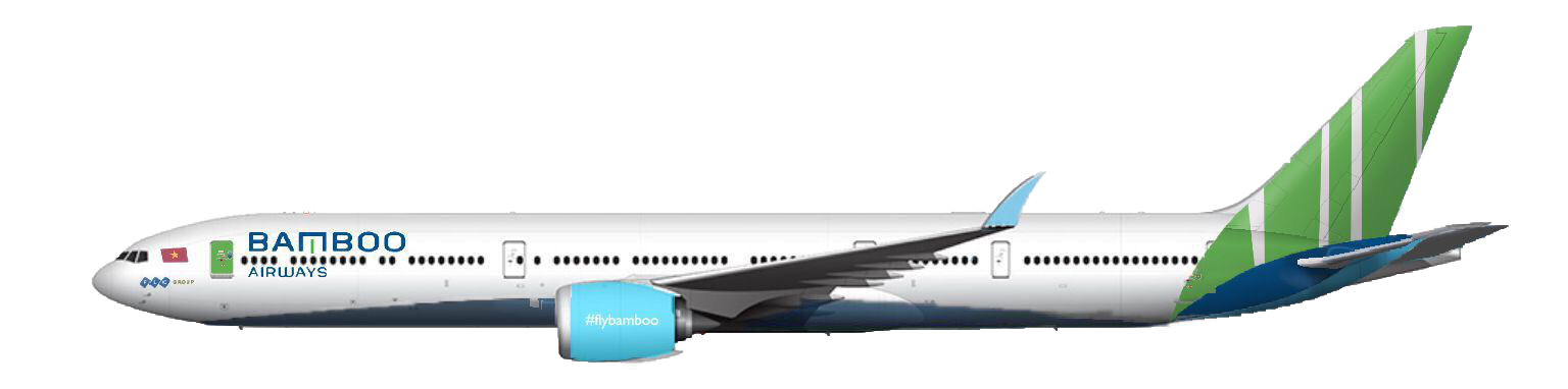 An idea of what the 777-9X would like like in Bamboo Airways’ livery